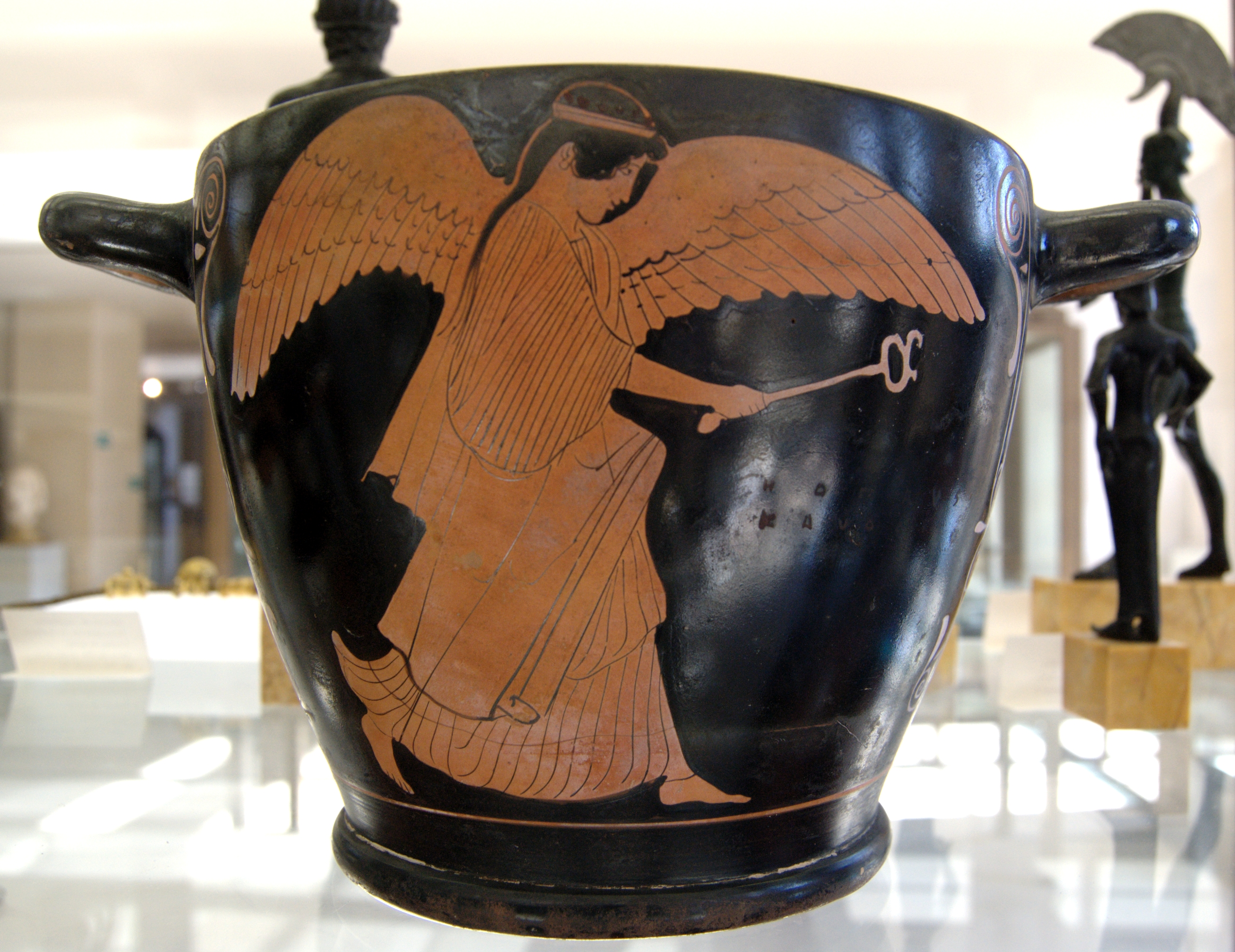 Winged female figure holding a caduceus : Iris (?). Side A of an Attic red-figure skyphos, middle of 5th century BC.